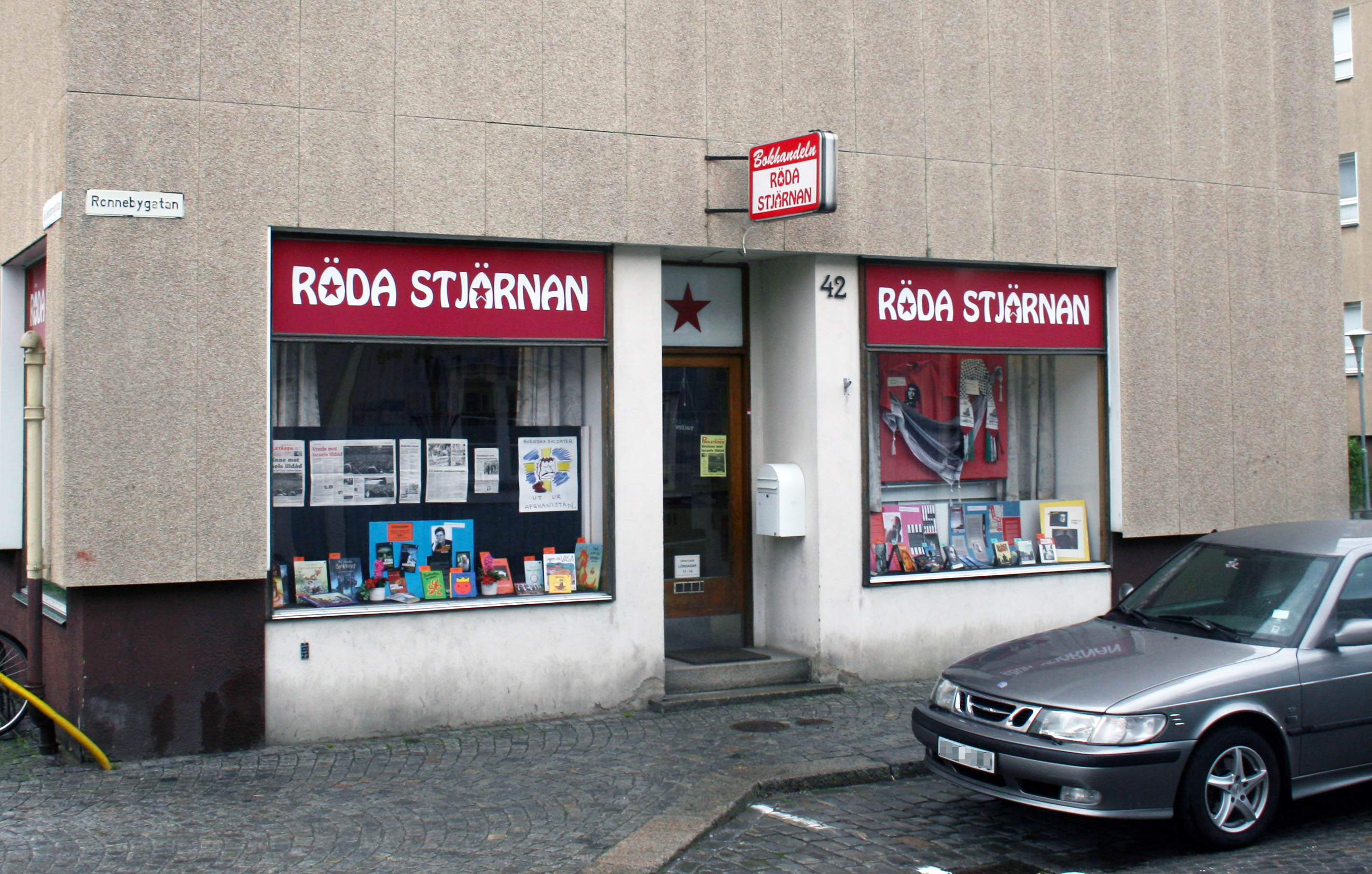 Bookstore "Röda stjärnan" (The Red Star), run by the Communist Party of Sweden in Karlshamn